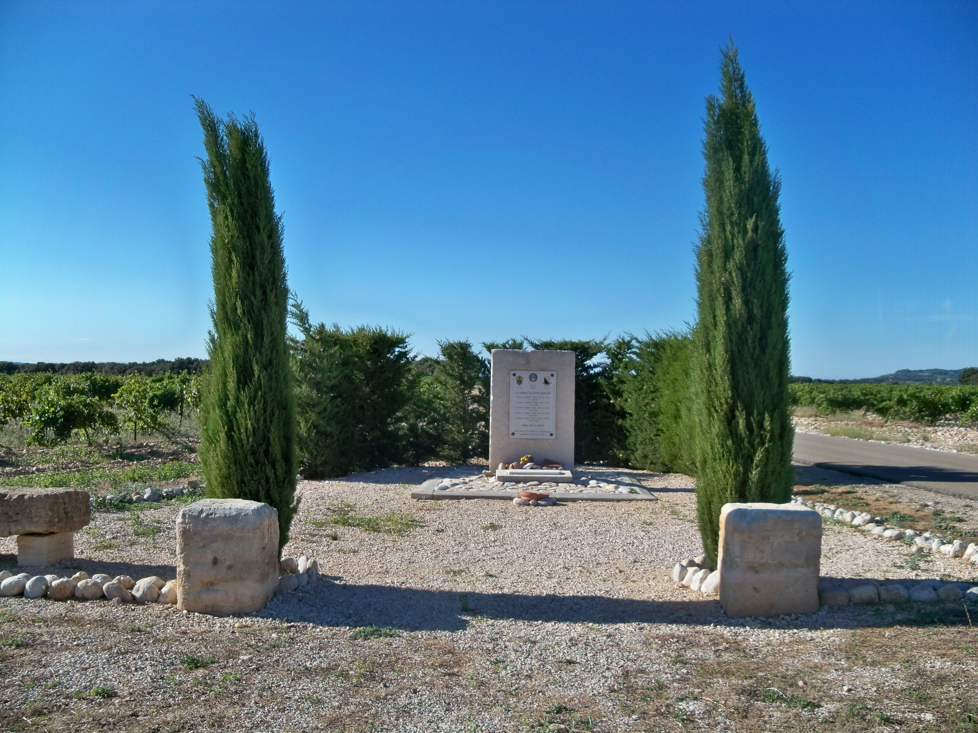 Memorial of the Plan de Dieu, with the memory of American pilots "fallen for Liberty" during the summer 1944, Vaucluse, France